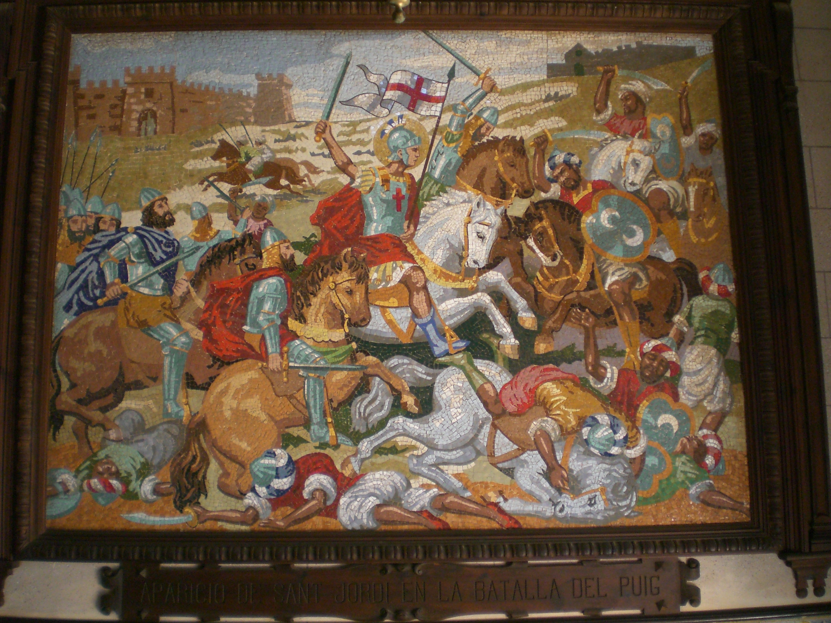 Murial of the battle of Puig in the Hermitage of Saint George El Puig, Valencia